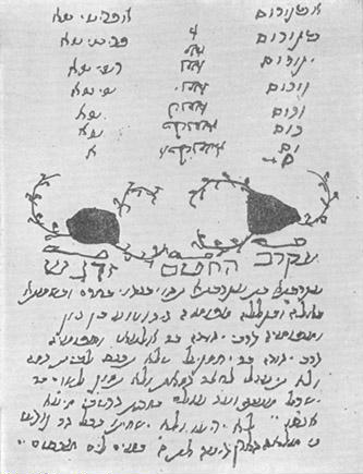 Moroccan Jewish kabbalistic charm against scorpiones.